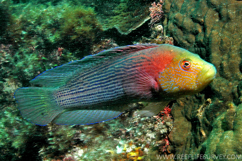 A Lined Dottyback, Labracinus lineatus, in the Jurien Bay Marine Park, Western Australia.